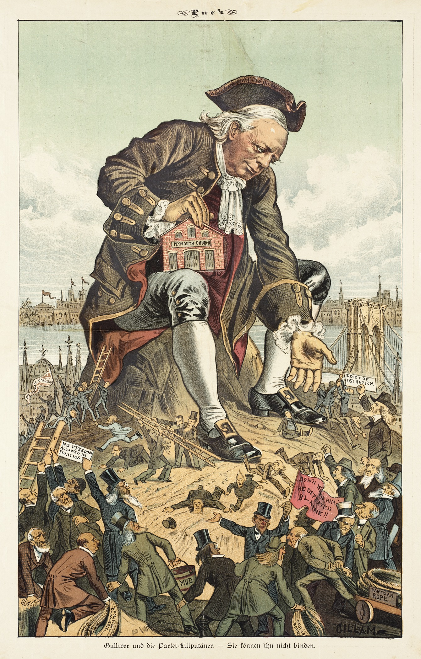 Illustration shows Henry Ward Beecher as Gulliver holding on his knee a small building labeled "Plymouth Church" and reaching his left hand out, in a friendly gesture, toward a crowd of "Liliputians" who are scampering about, some with ropes labeled "Partisan Rope, Caucus Rope, [and] Political Slavery", others with signs that state "Down with him. He defeated Blaine!!, No freedom Allowed in Politics, Edict of Ostracism" United States, 1885 Prints; lithographs Color lithograph Gift of Mrs. Irene Salinger in memory of her father, Adolph Stern (54.70.29.17) Prints and Drawings